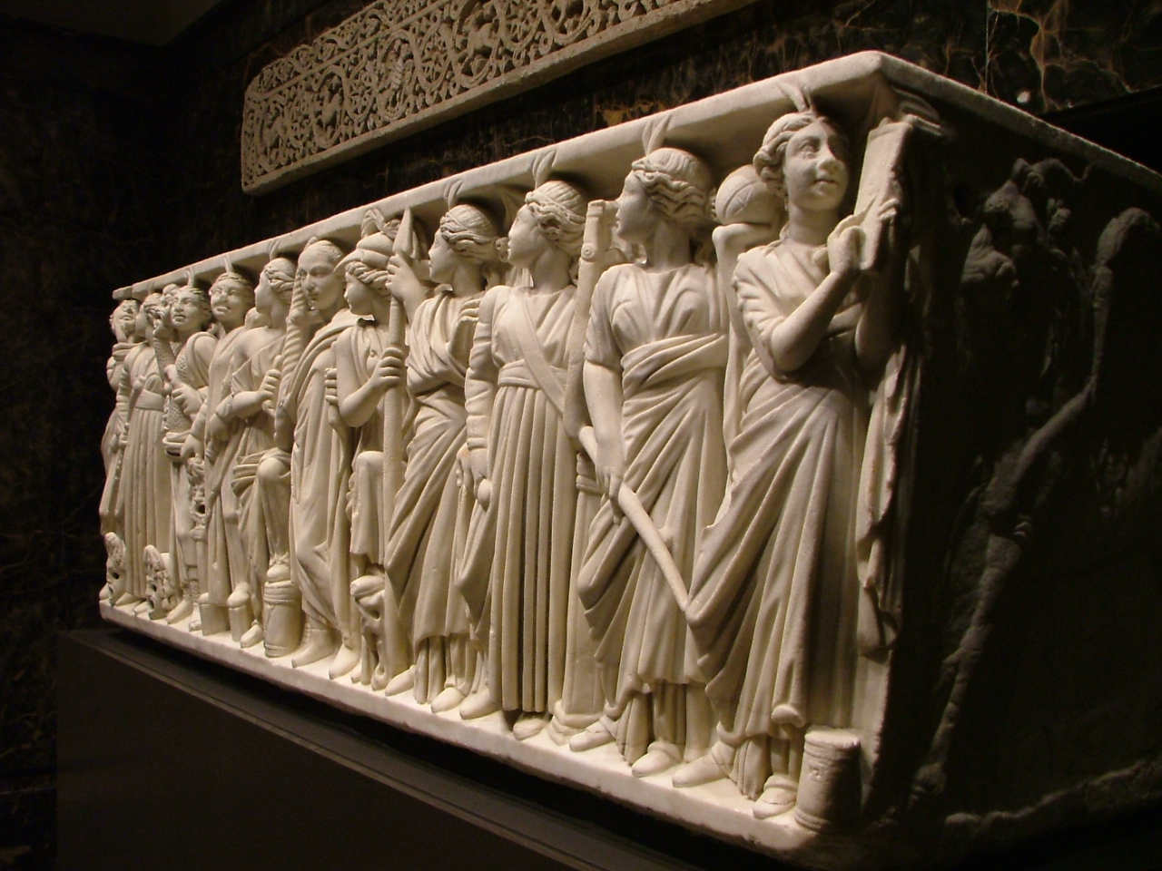 Picture of a carved Roman Sarcophagus